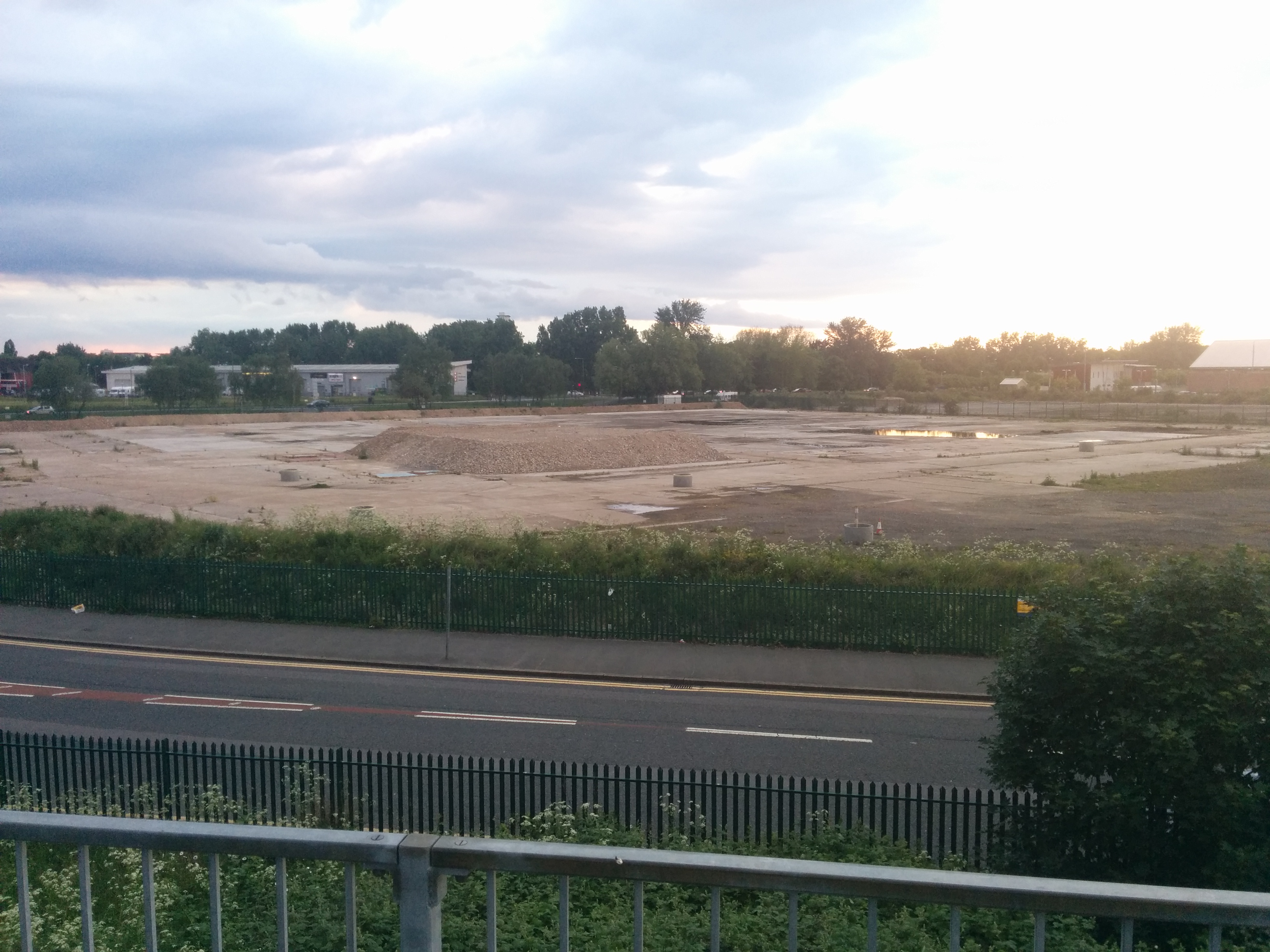 The site of the Manor Ground, viewed from the Southern Outfall Sewer